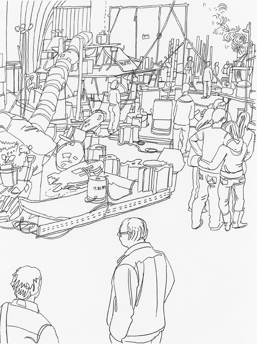 Matthias Beckmann, Flick Collection II, 2004, graphite on paper, 35,5 x 26,8 cm